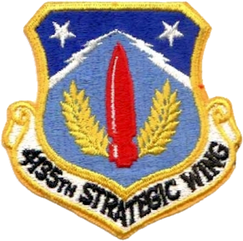 4125th Strategic Wing emblem. A copy of this emblem was downloaded from for use in my book “The Genealogy of the STRATEGIC AIR COMMAND” with the webmasters’ approval.